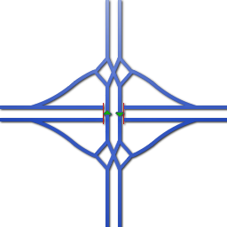 Diverging Diamond Road Interchange